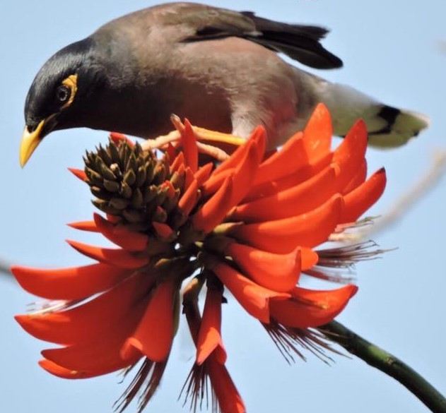 Common myna, near Sukhna lake Chandigarh, India